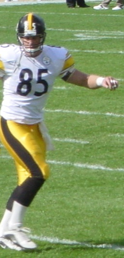 John Allred during 2002 season